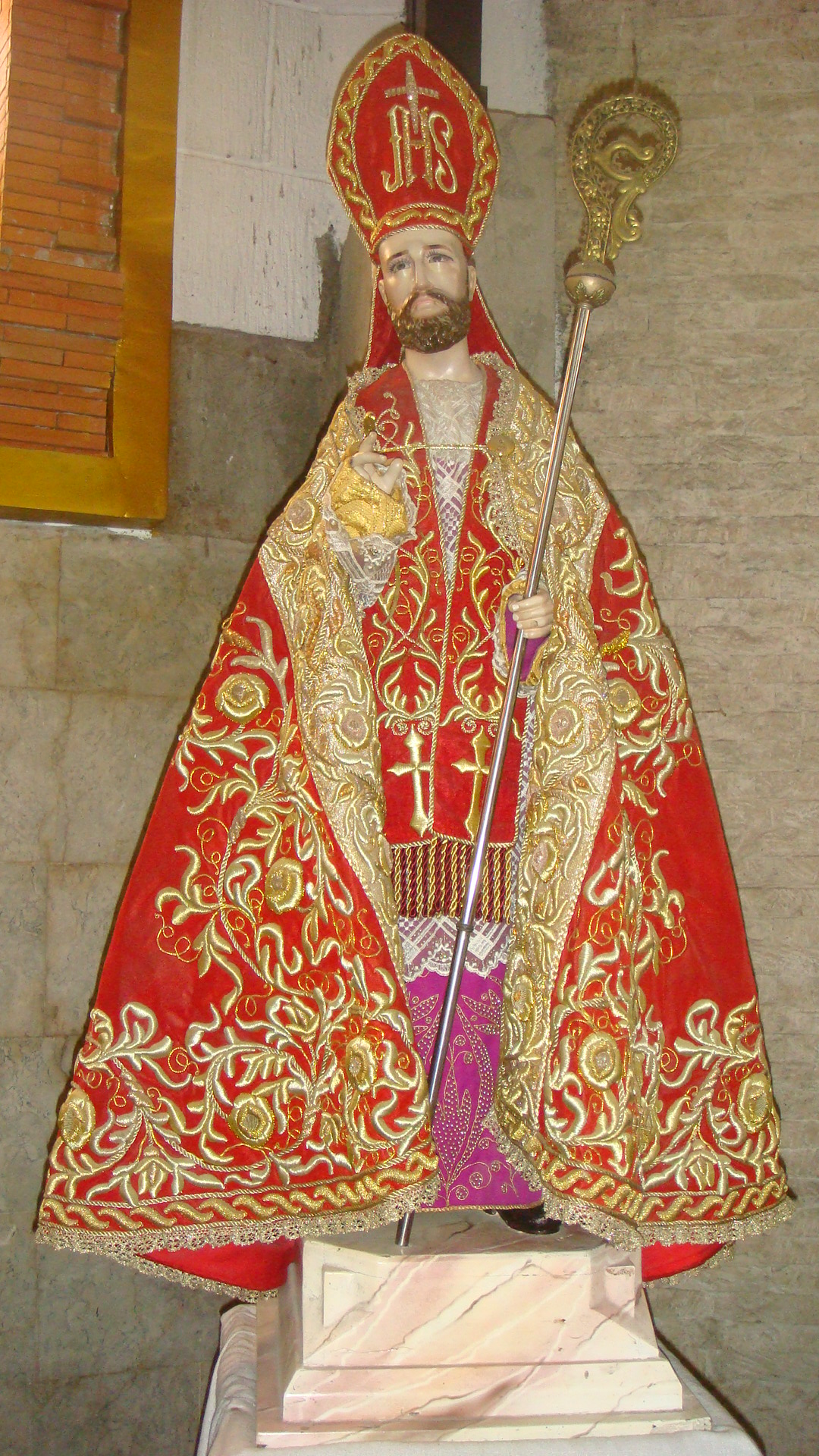 Holy Image of Saint Ildephonsus of Toledo in St. Ildefonsus Church, San Ildefonso, Bulacan[1][2]